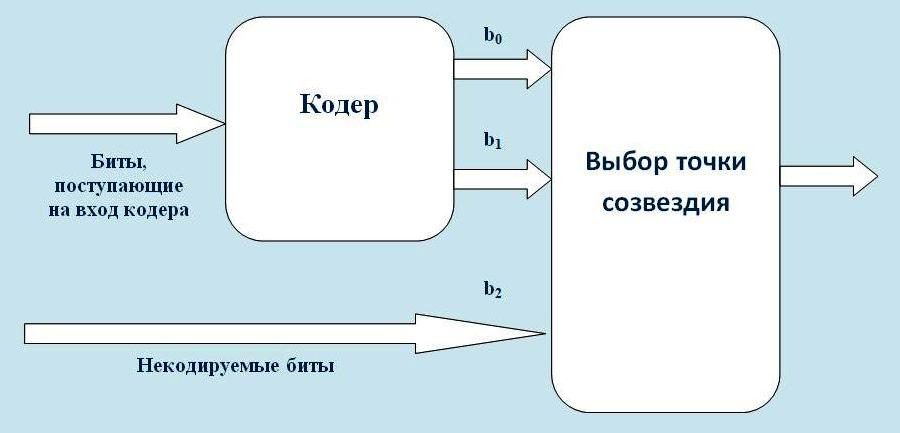 Coder&Modulator